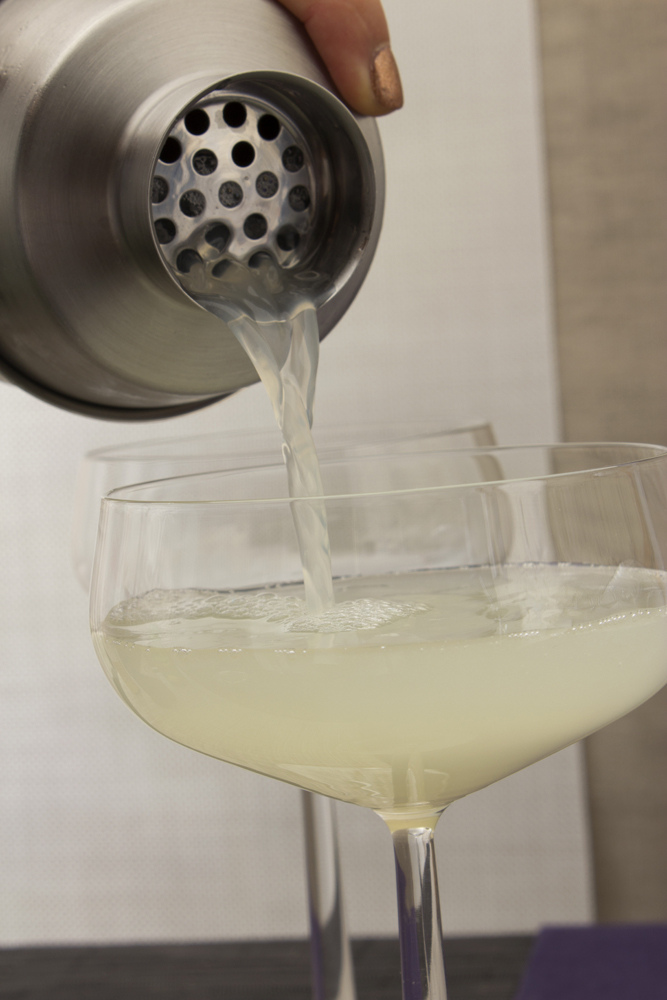 Pouring an aviation cocktail from a cocktail shaker